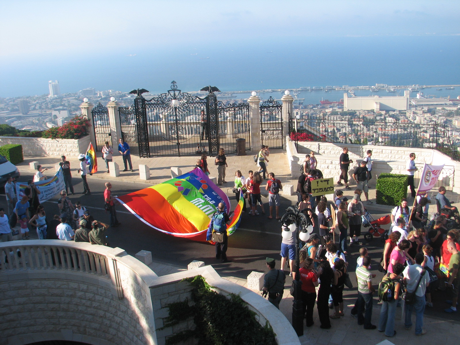 The annual Haifa gay pride parading along Yefé Nof Street (Panorama Street), borough of Carmel.